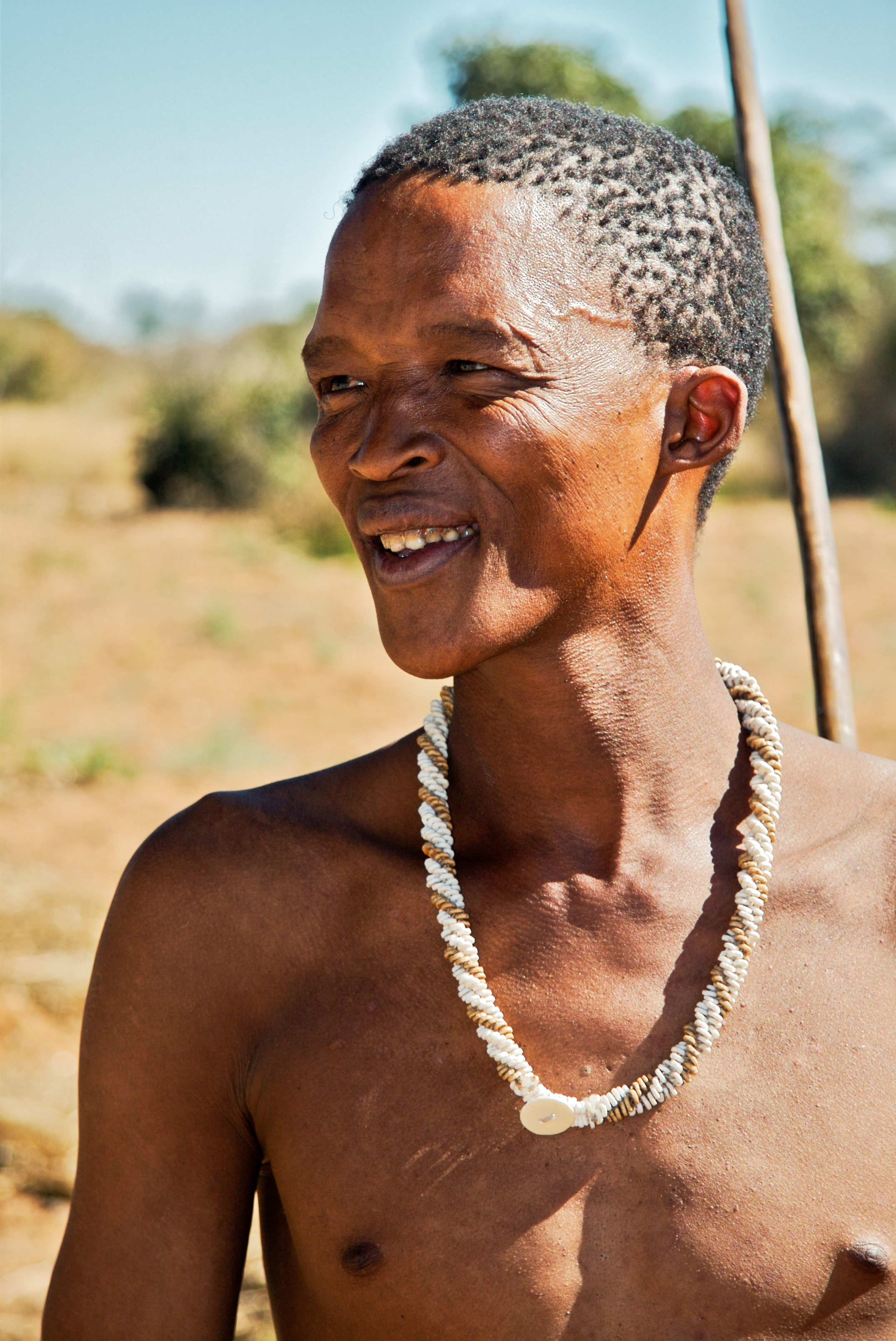 A San (Bushman) who gave us an exhibition of traditional dress and hunting/foraging behavior. Namibia.